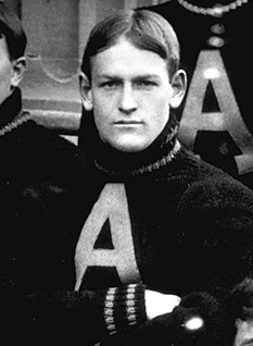 Photograph of Paul Bunker